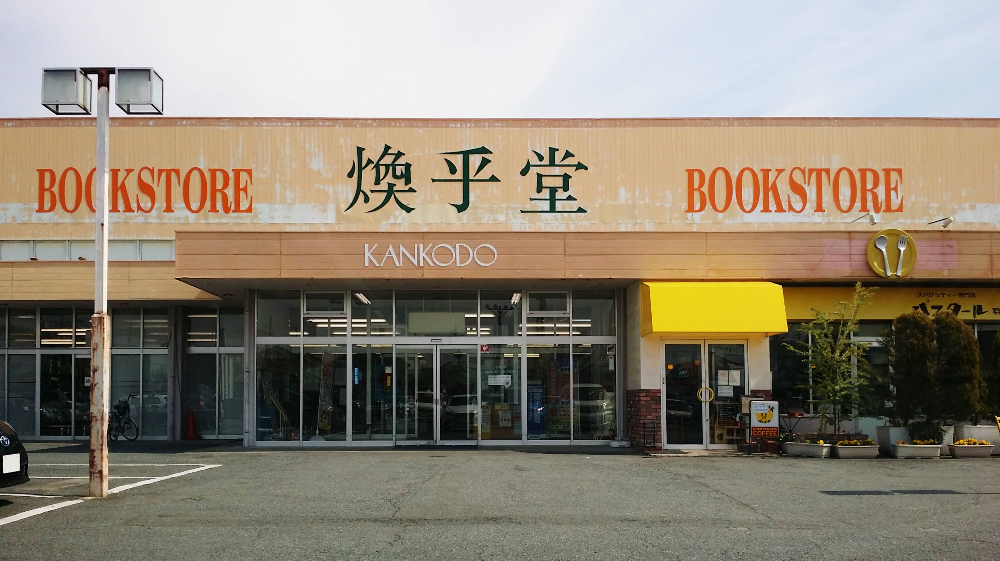 Kankodo Gunmamachi.